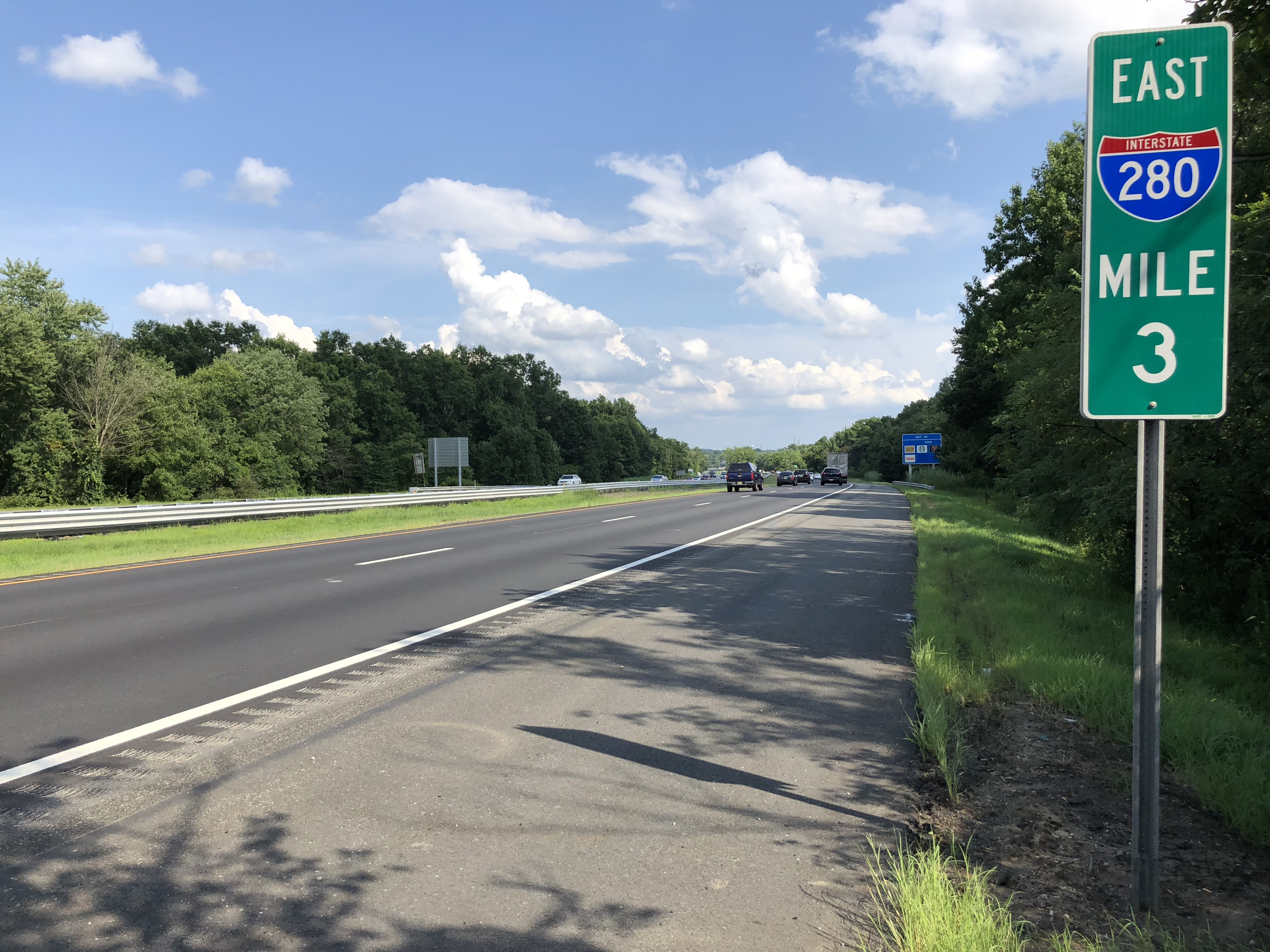 View east along Interstate 280 (Essex Freeway) between Exit 1 and Exit 4 in East Hanover Township, Morris County, New Jersey